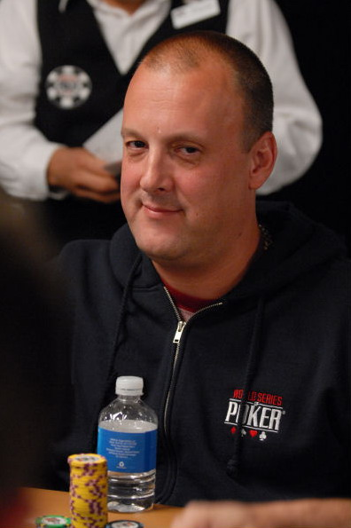 Ross Boatman at the 2007 World Series of Poker